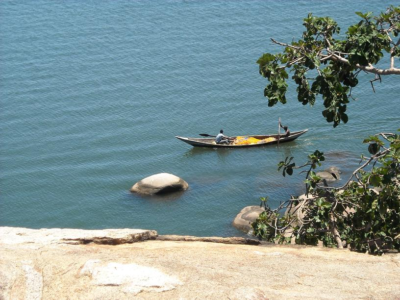 Muhuru Bay